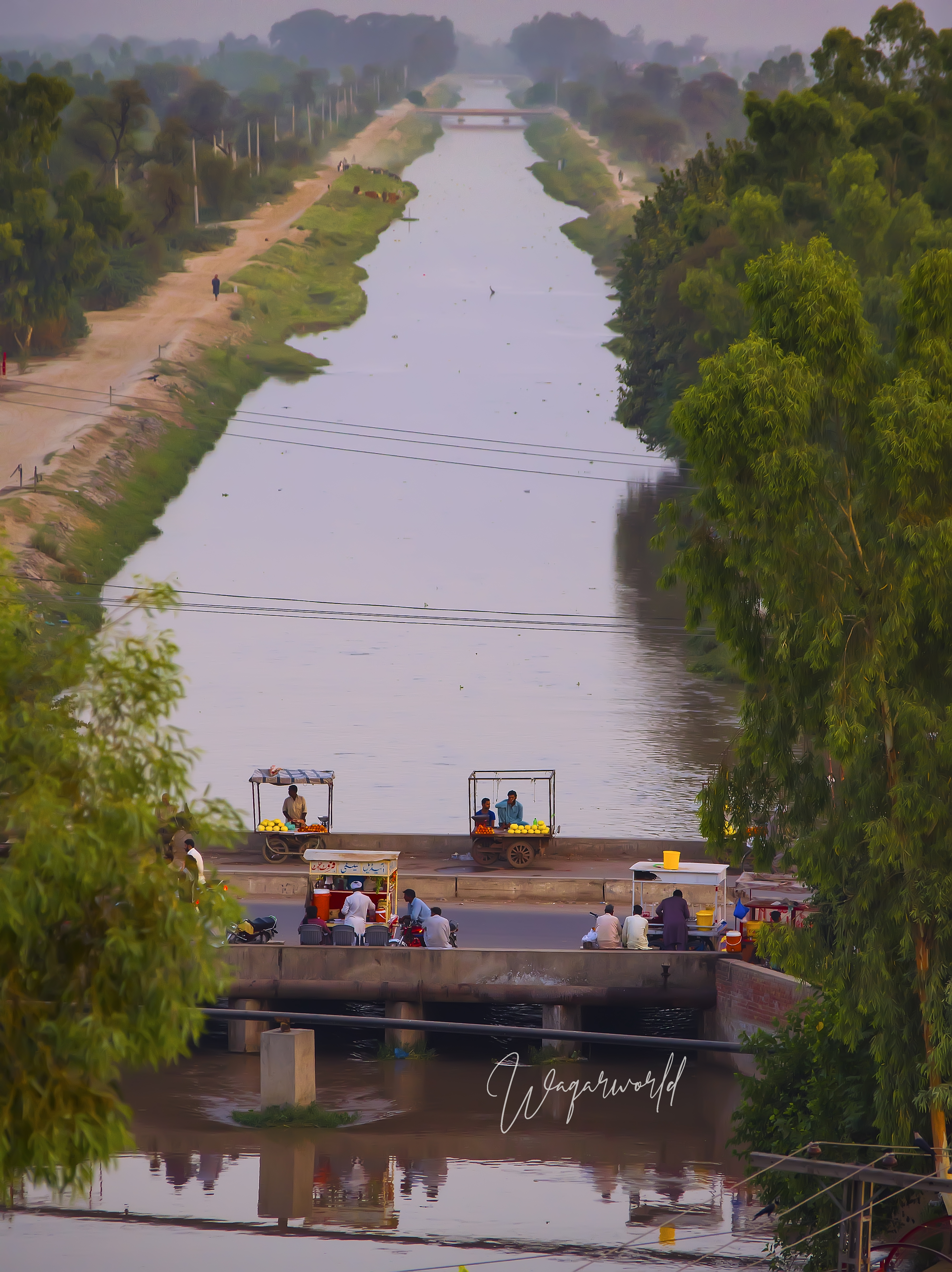 Samundri's Big Canal . The canal flows from the Chenab River into the Samundri and flows into the river Ravi near the homeland.